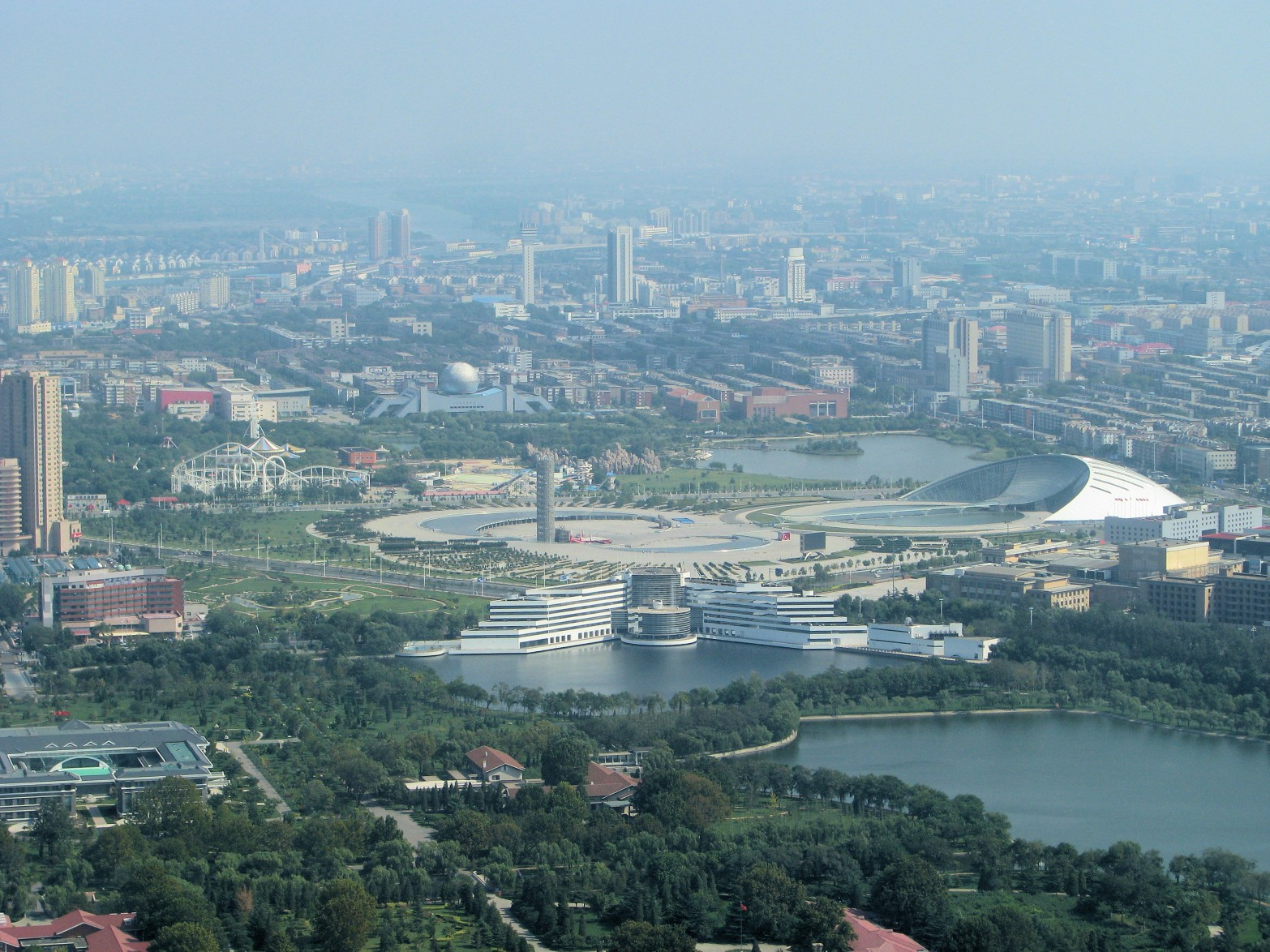 View of Tianjin Museum and Yinhe Park from the observation room of the Tianjin TV Tower (small, low resolution)